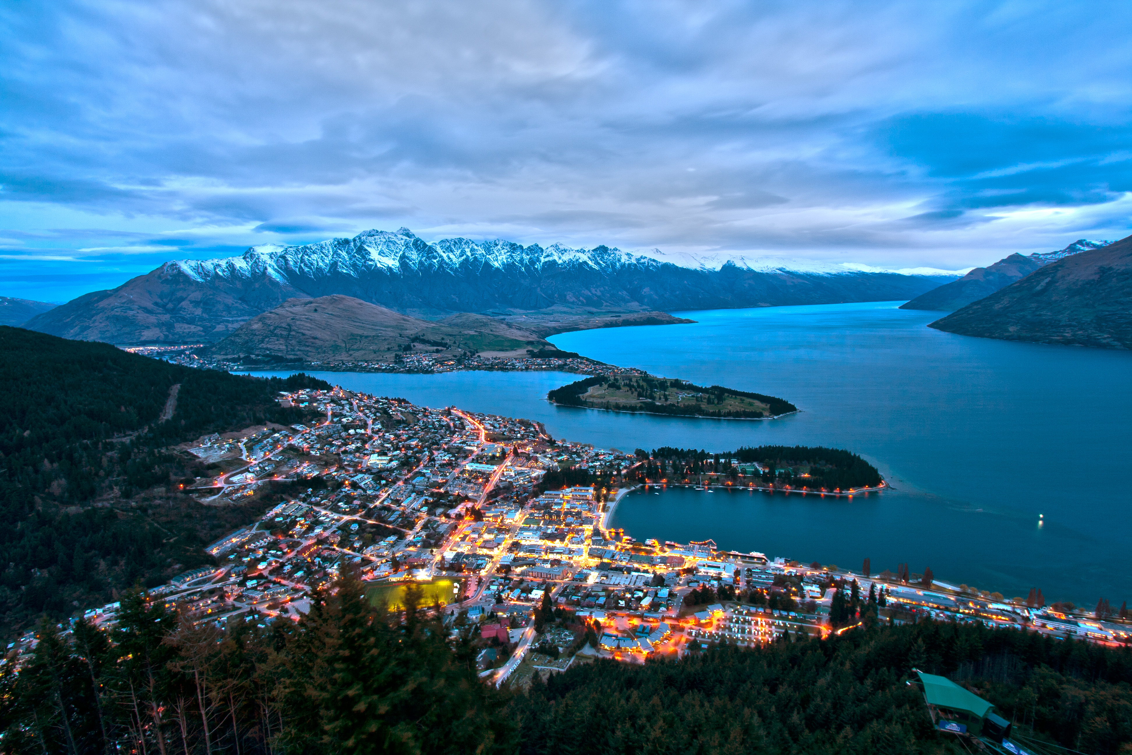 Queenstown, New Zealand (September 2011)